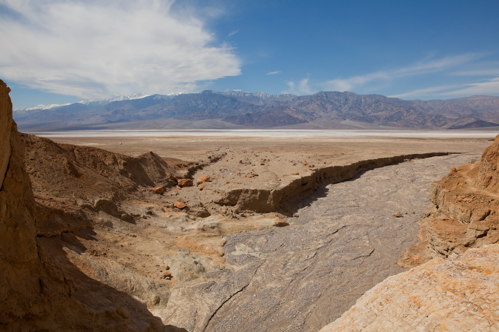 The end of the Gower Gulch trail in Golden Canyon, Death Valley, CA.